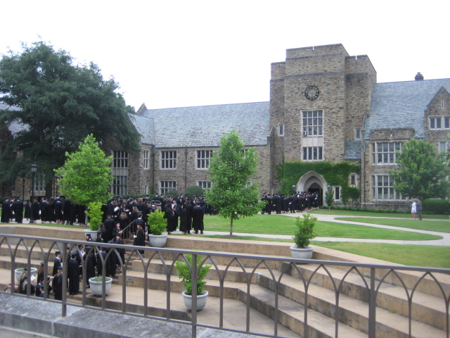 Palmer Hall during Graduation